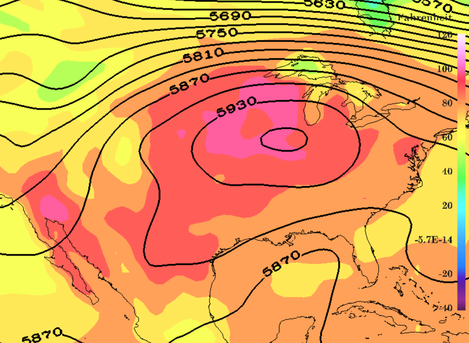 This is a screenshot of the IDV tool, looking at data from the ERA-I reanalysis plotting 500mb heights and 2m temperatures. We are specifically looking at the United States